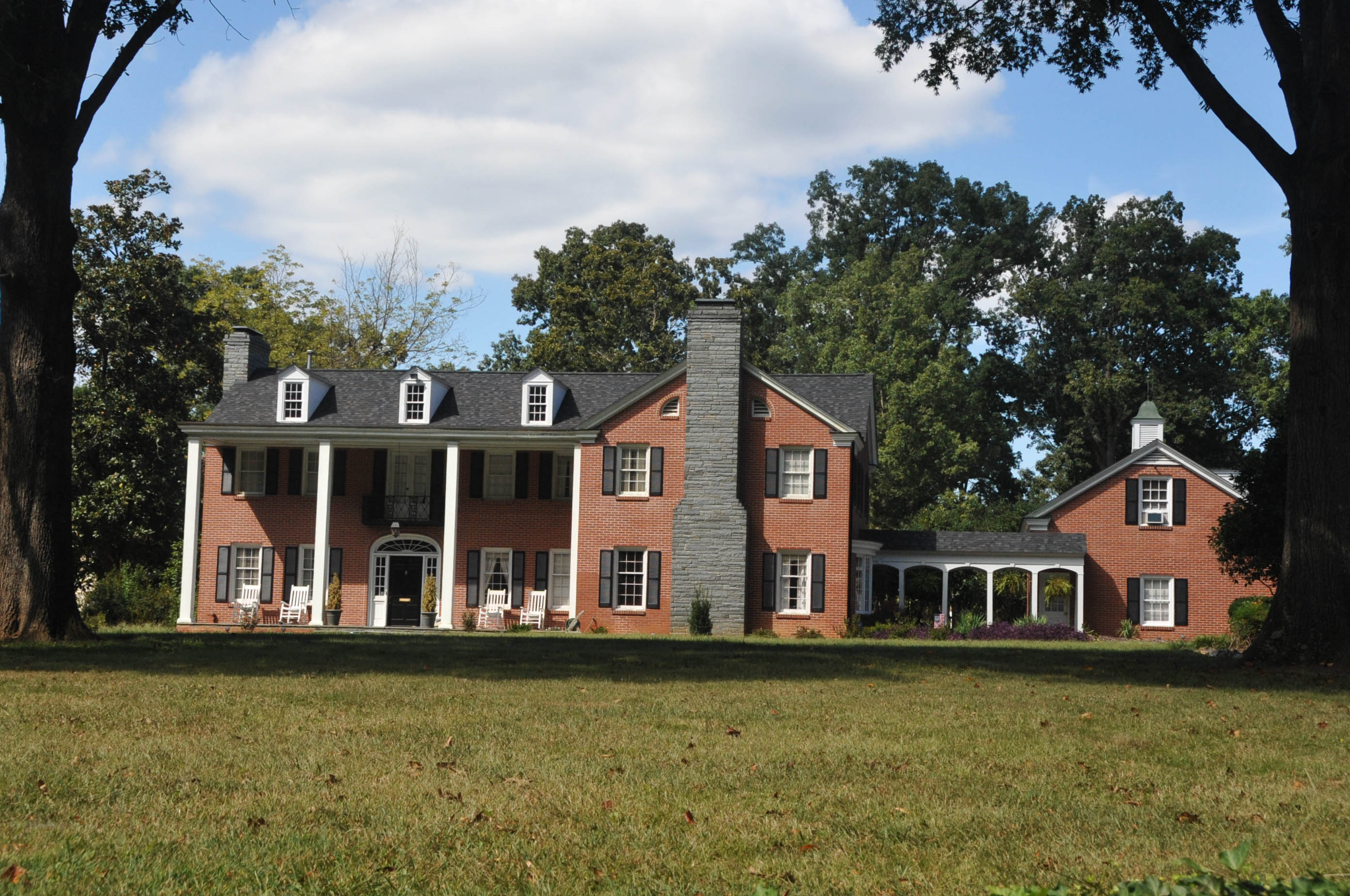 WADE F. DENNING HOUSE; 1950